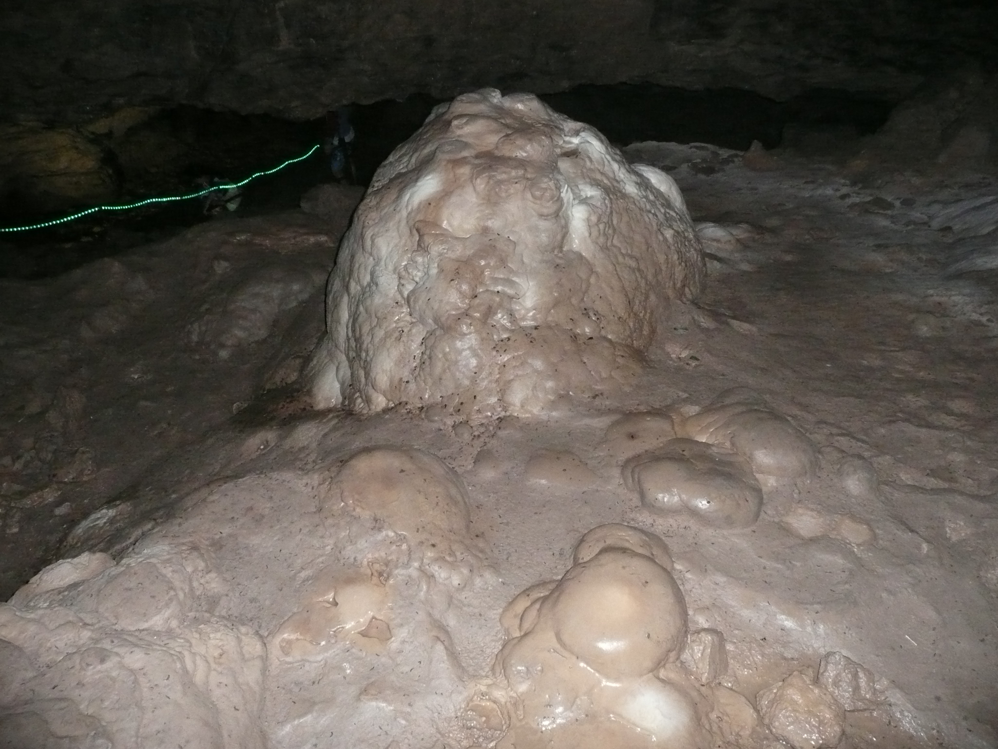 Stalagmitеs from the Bacho Kiro cave near Dryanovo monastery, Central Northern Bulgaria